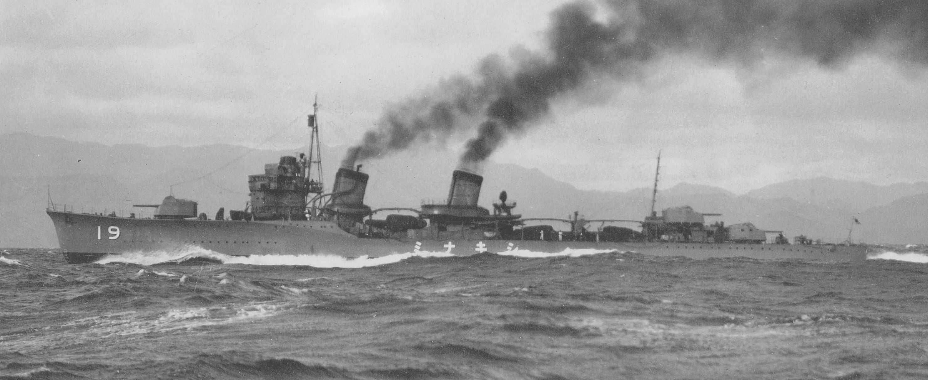 Imperial Japanese Navy destroyer Shikinami, the second Japanese destroyer to bear that name.